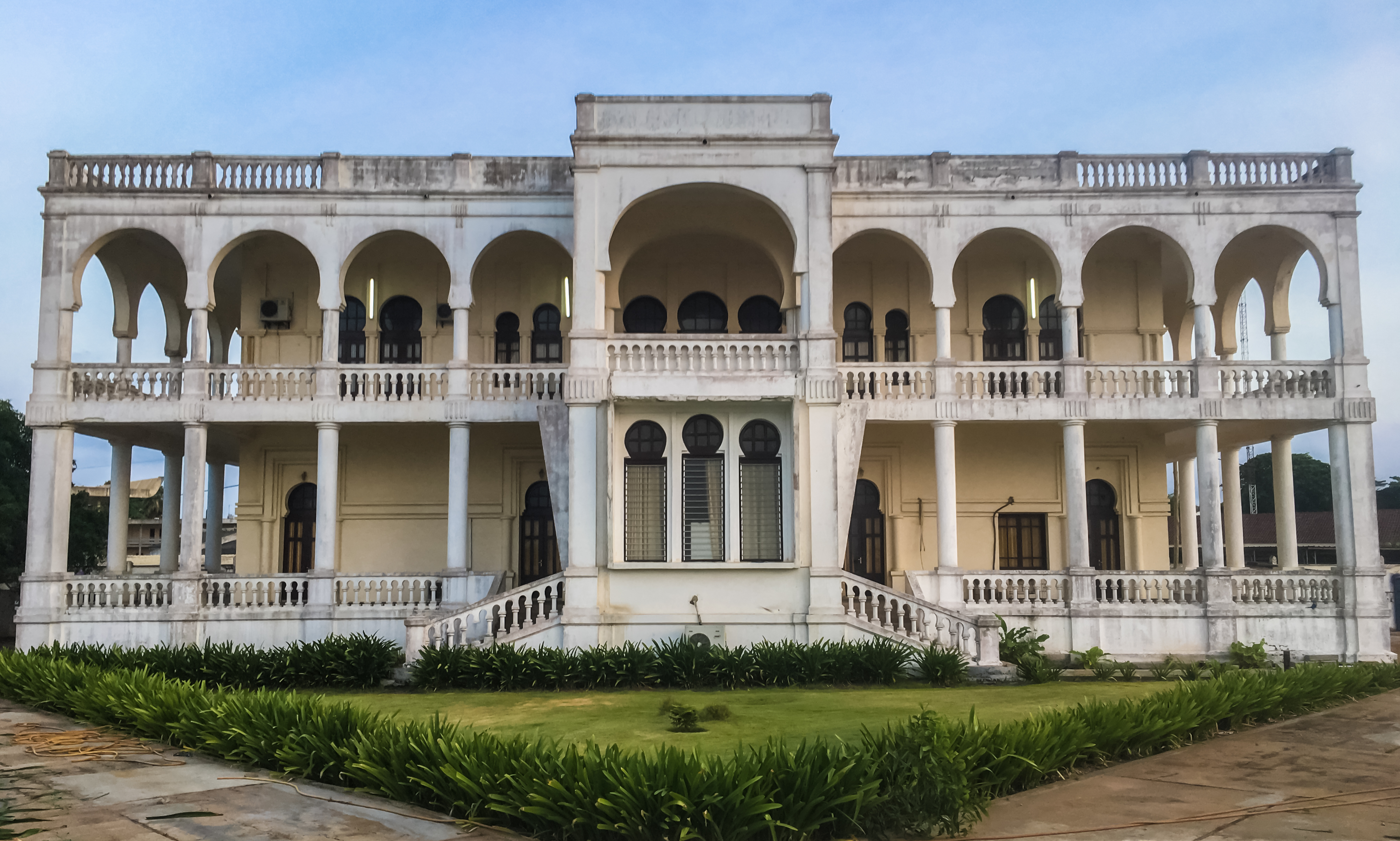 Ministry of Justice Building in Lomé. Discovered on my run down the Boulevard de Mono, I later found out this pretty structure is a disused, but cared for, colonial building (German? French?) owned by the Ministry of Justice. The proportions of this one are a delight.